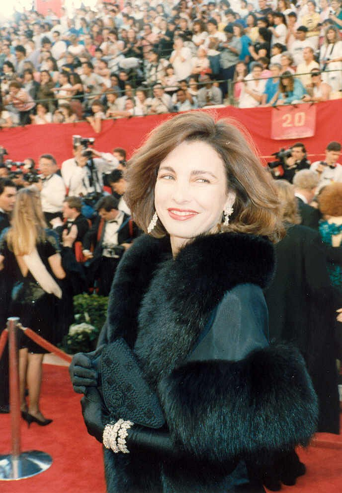 Anne Archer on the red carpet at the 1989 Academy Awards, March 29, 1989